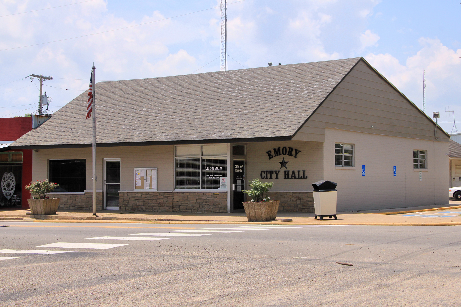 City Hall in Emory, Texas, United States